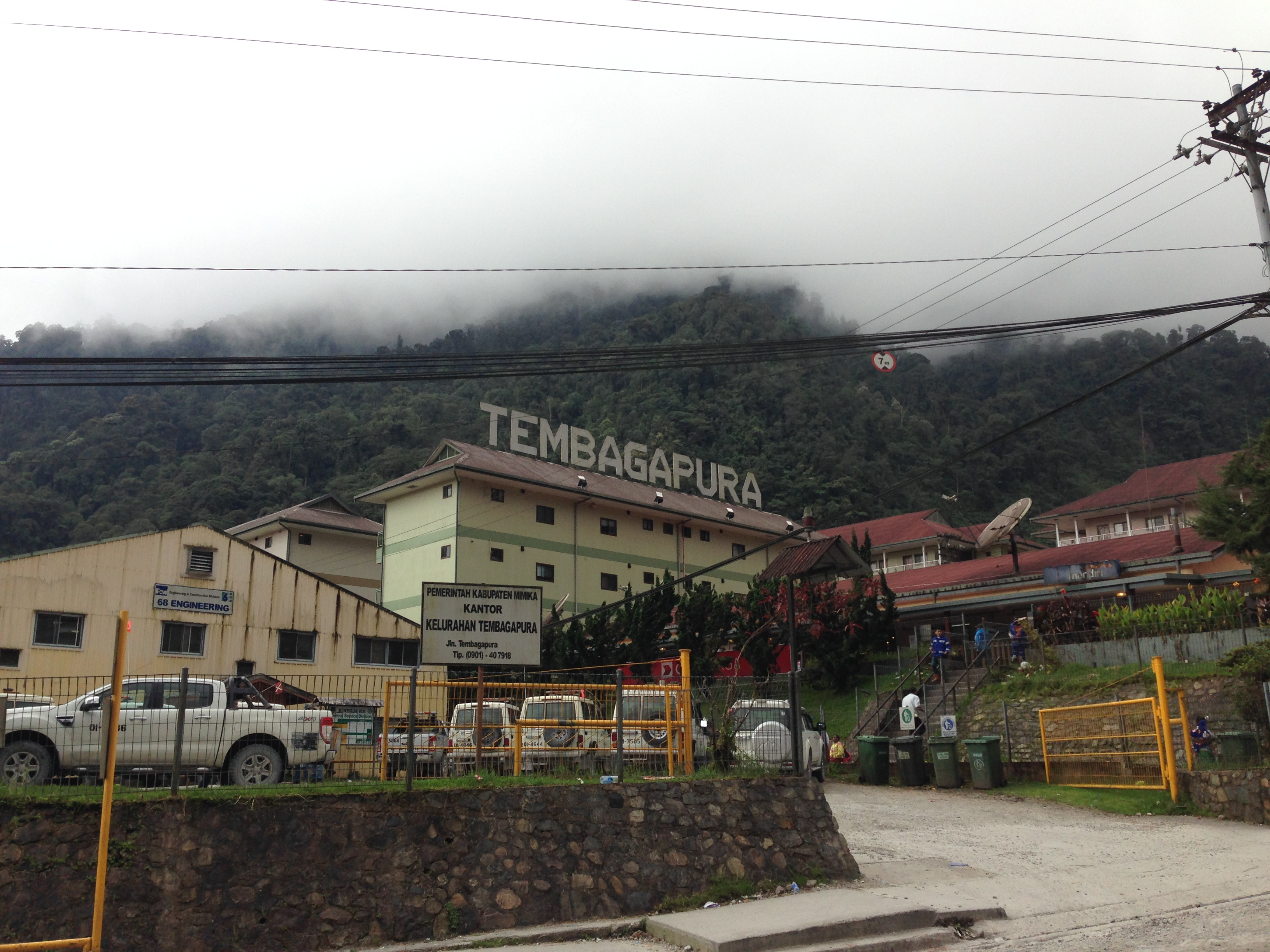 Tembagapura, Papua, Indonesia. The company town for PT Freeport's copper/gold mine. Pictured, the building on the extreme left is a Freeport engineering office, the buildings in the middle and on the right are accommodations blocks. Taken around 1:30 pm, thick clouds are visible at the tops of the mountains, this is typical for this time of day.